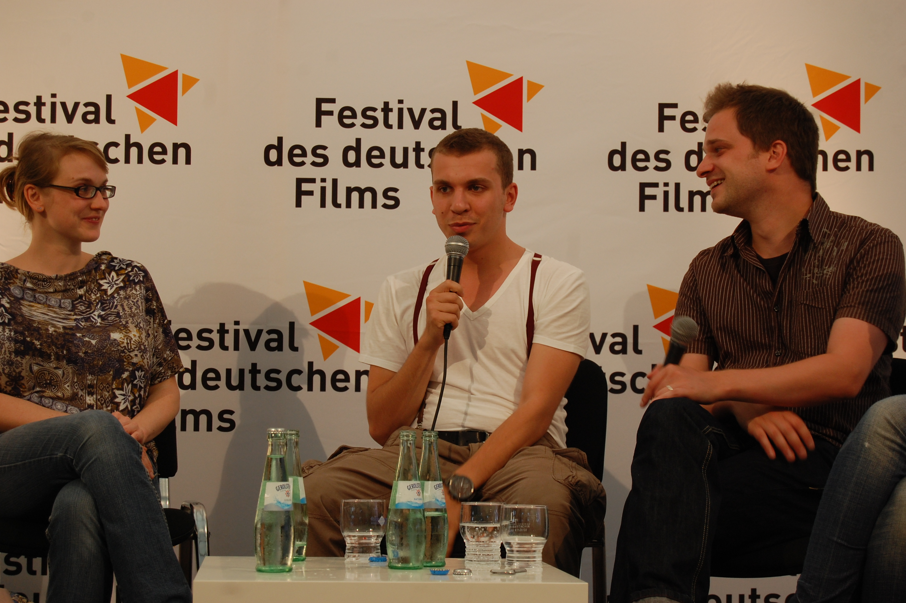 German actor Edin Hasanovic (centre) and german movie director Lars Gunnar Lotz presenting their film "Schuld sind immer die anderen" at the Festival des deutschen Films (Festival of the German Movie) 2012 in Ludwigshafen.